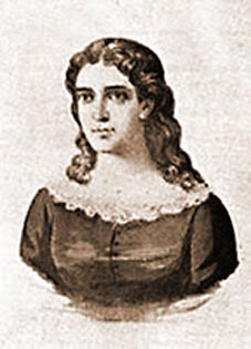 Lithography of Dolores Veintimilla de Galindo, an ecuadorian poet and writer